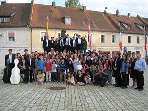 InterHarmony International Music Festival, group photo 2012